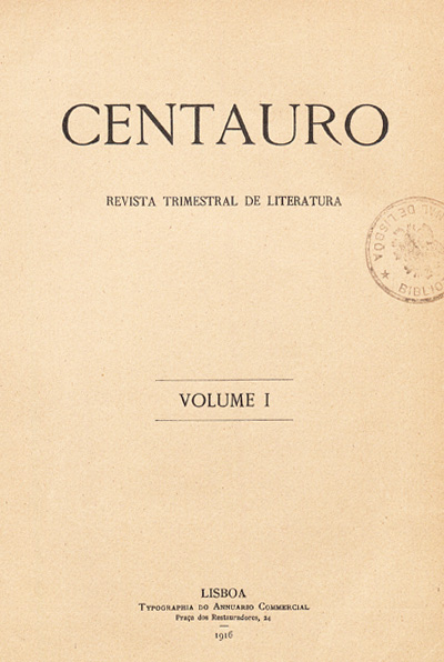 Centauro: - Revista Trimestral de Literatura. Outubro-Novembro-Dezembro, 1916. Dir. Luís de Montalvor.